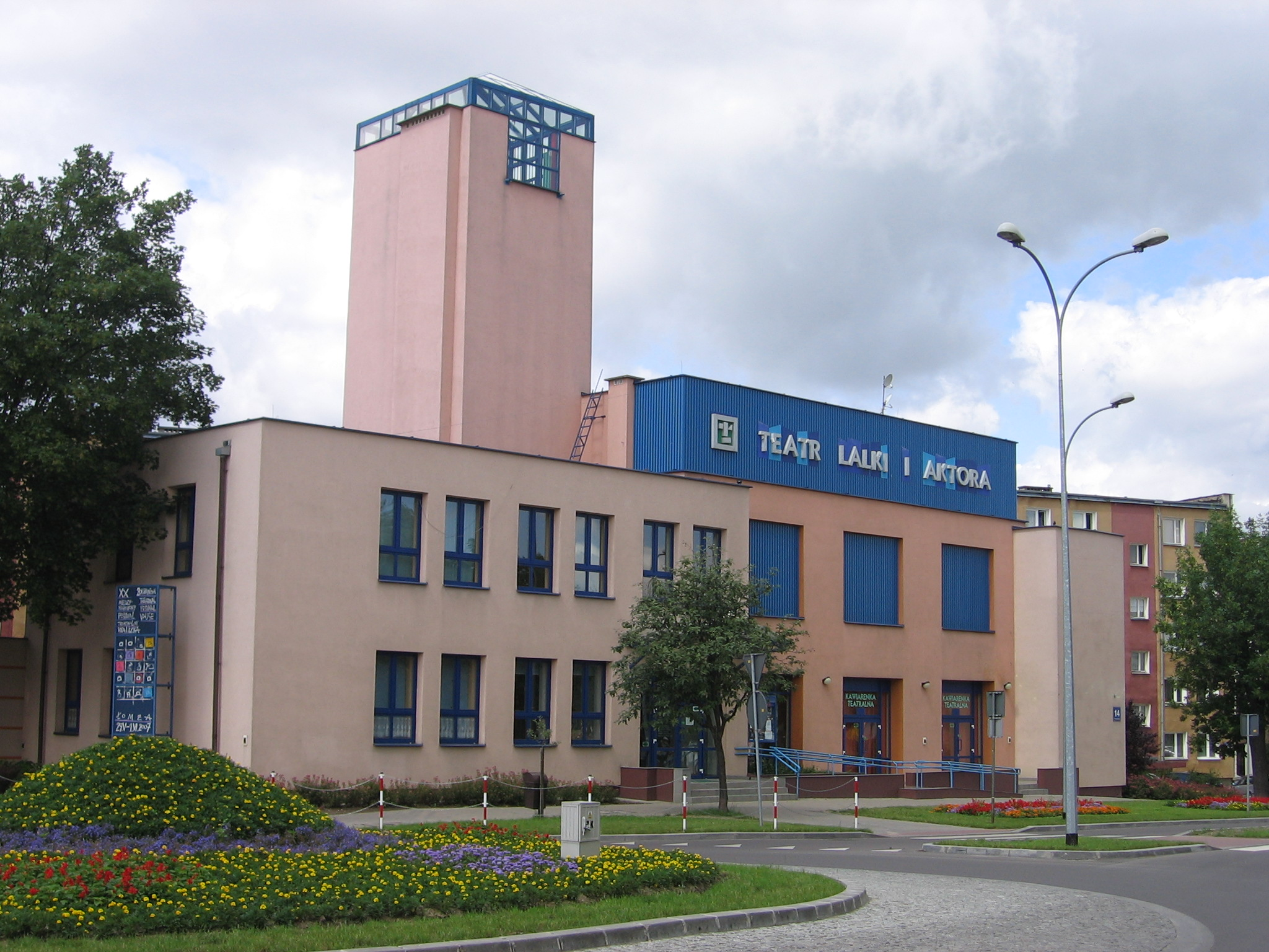 Building of the Puppet and Actor Theatre in Łomża, at 14 Niepodległości Square